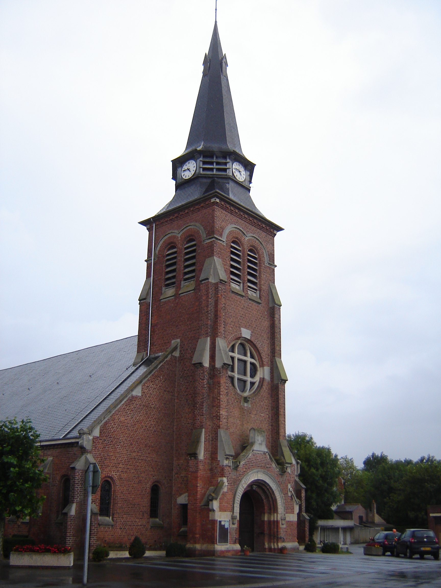 Church of the Assumption of Mary in Les Moëres. Les Moëres, Nord, Nord-Pas-de-Calais, France